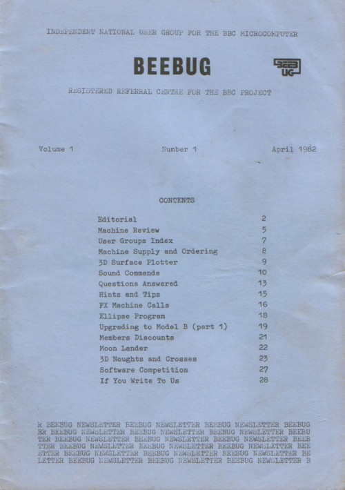 Front cover of BEEBUG newsletter